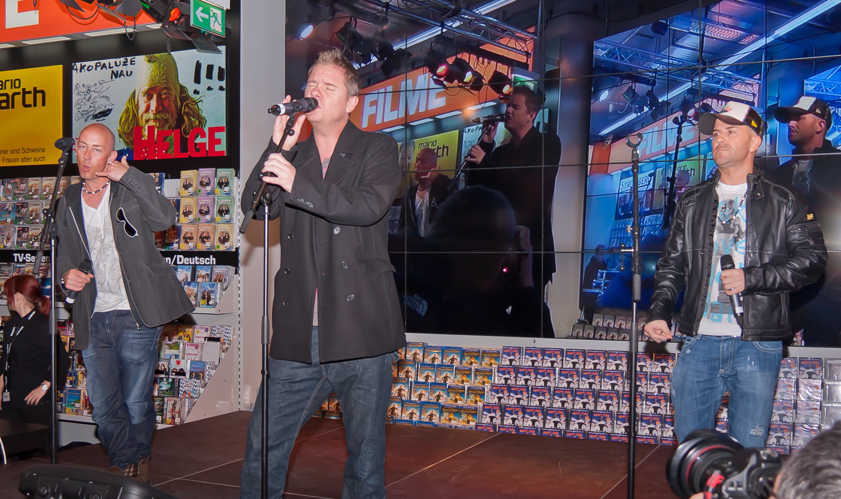 East 17 on promo tour in Germany. Performance in Saturn Hansaring, Cologne.